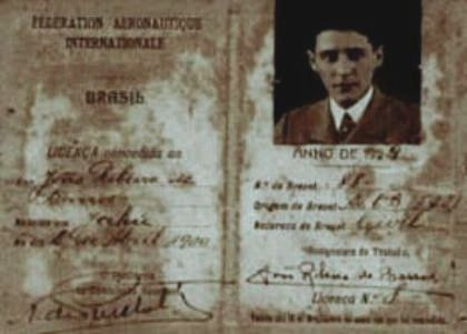 Pilot licensing No. 88 of the Federation Aeronautique Internationale of France granted to João Ribeiro de Barros on February 21, 1923.